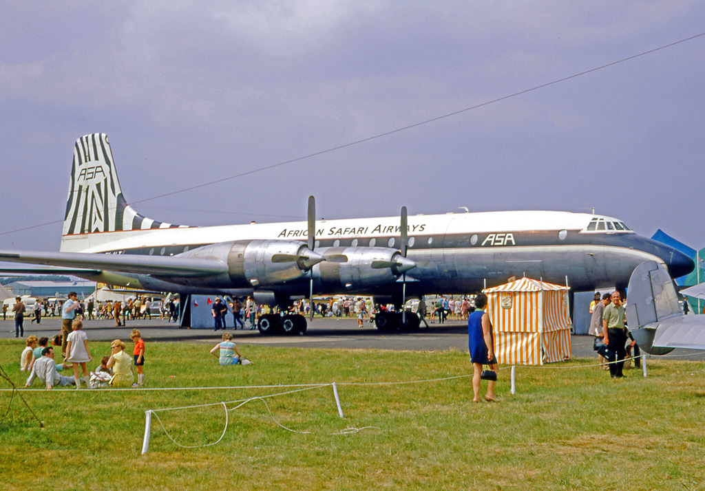 Bristol 175 Britannia 314 5Y-ALP of African Safari Airways in 1970